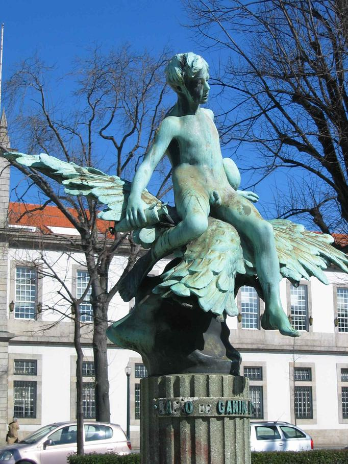 Abduction of Ganymede (1910) - Fernandes Sá - Oporto - Portugal